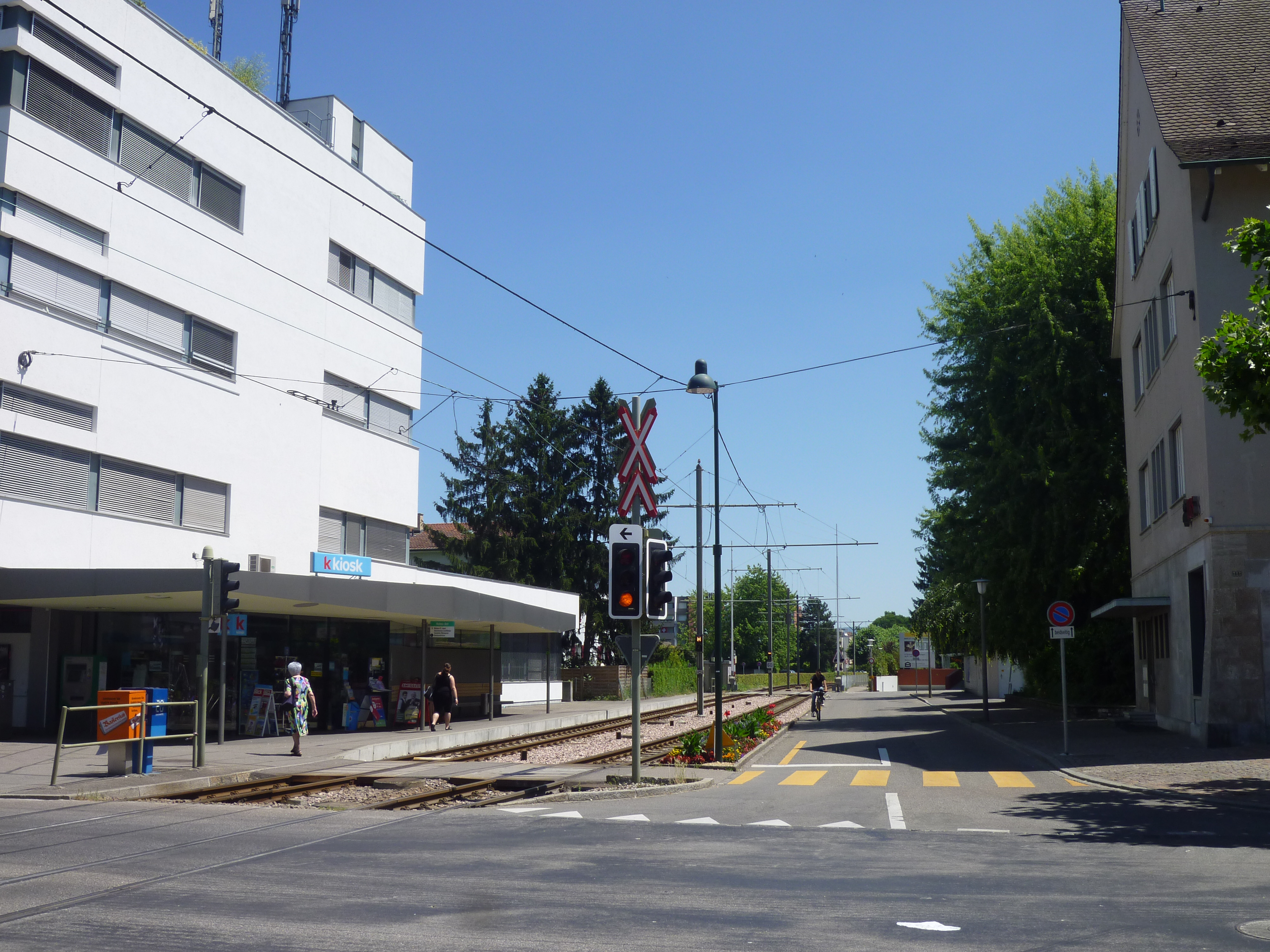 Canopy and kiosk integrated with the adjacent building in Muttenz, Basel-land, Switzerland